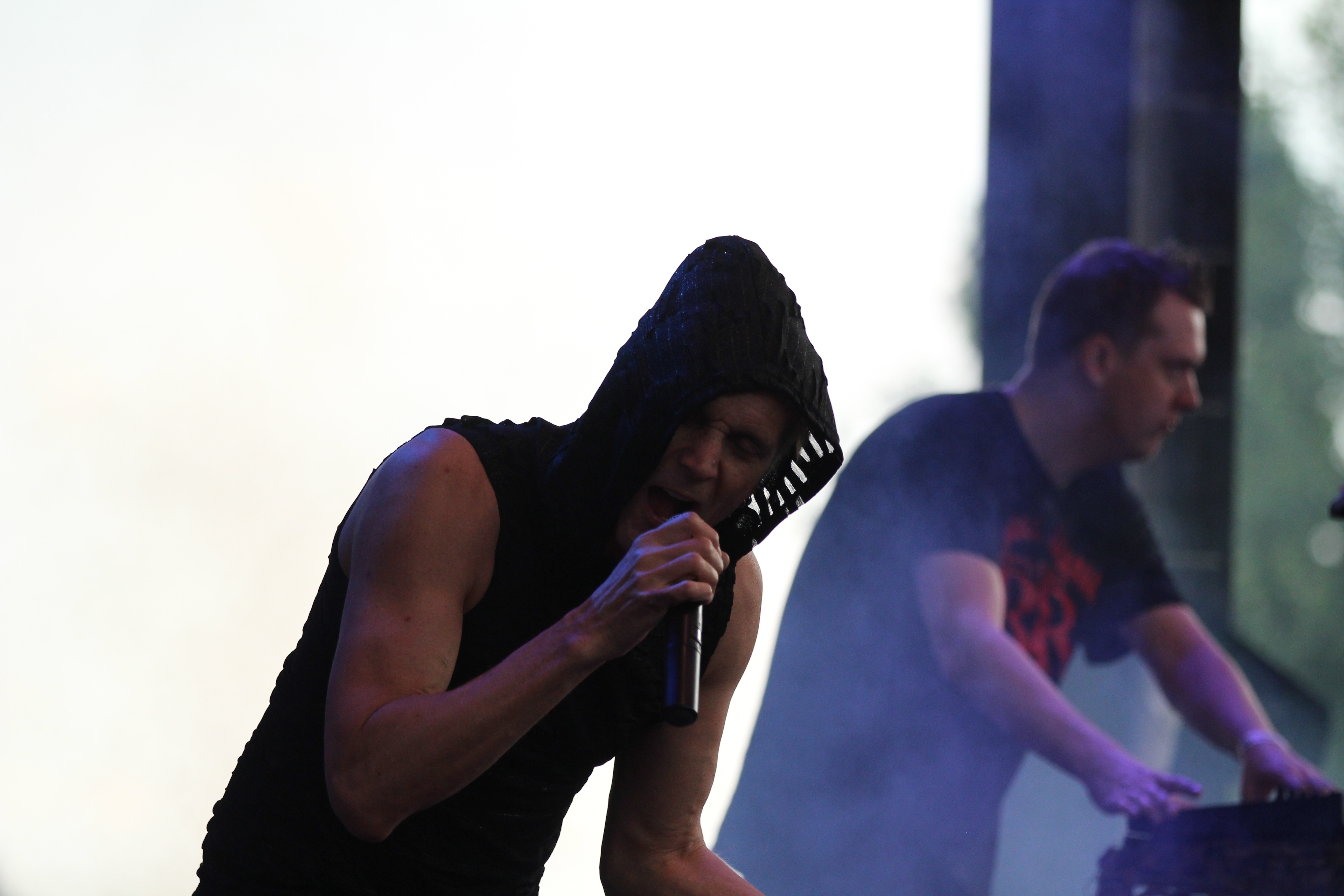 The Canadian electronica band Front Line Assembly at the Blackfield festival 2014 in Gelsenkirchen